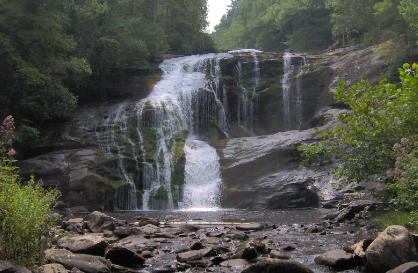 Bald River Falls, near the mouth of Bald River in the Bald River Gorge Wilderness, in the southeastern United States. The Bald River is a tributary of the Tellico River.